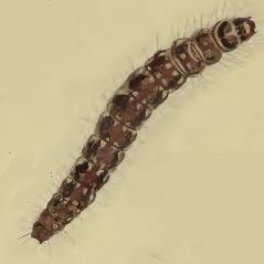 Stainton’s Natural History of the Tineina (1855–1873): Aristotelia ericinella larva